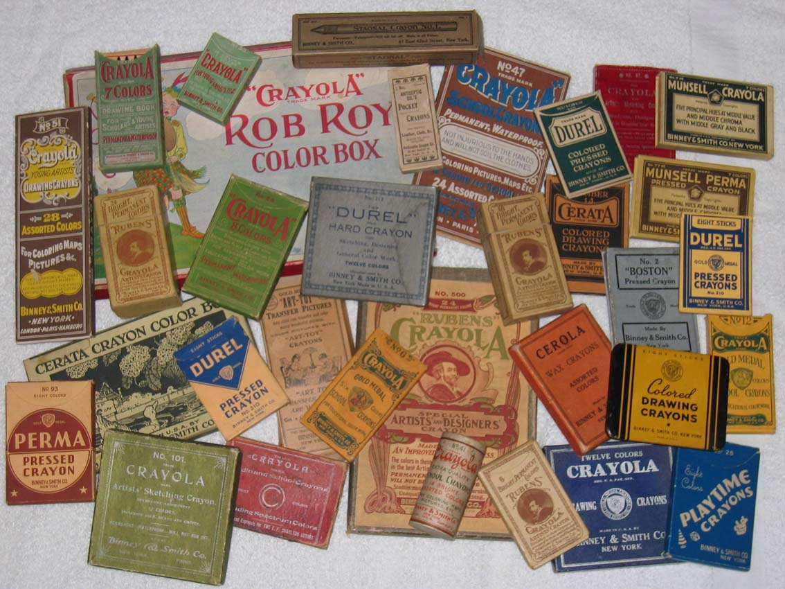 Assortment of Crayola boxes pre-1920 from the collection of Ed Welter